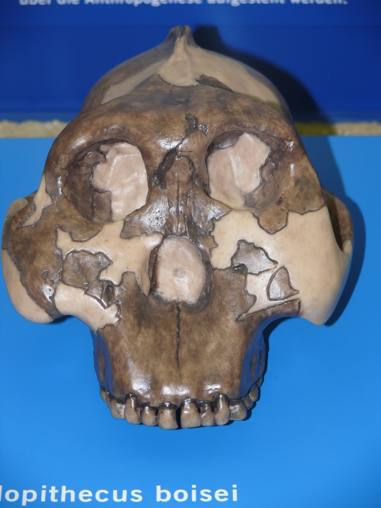 Skull of Paranthropus boisei (jr synonym = Australopithecus boisei)